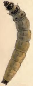 Stainton’s Natural History of the Tineina (1855–1873): Coleophora odorariella larva